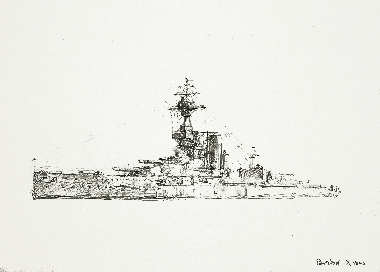 HMS 'Benbow' at Christmas, 1918 Inscribed by the artist, lower right, 'Benbow Xmas'. The battleship 'Benbow' was built by Beardmore at Glasgow, launched on 12 November 1913 and completed in October 1914. This nearly port-broadside study from off the port bow depicts her at Christmas 1918 with a flying-off platform and deflection scales on 'B' turret, and Christmas trees in her rigging.